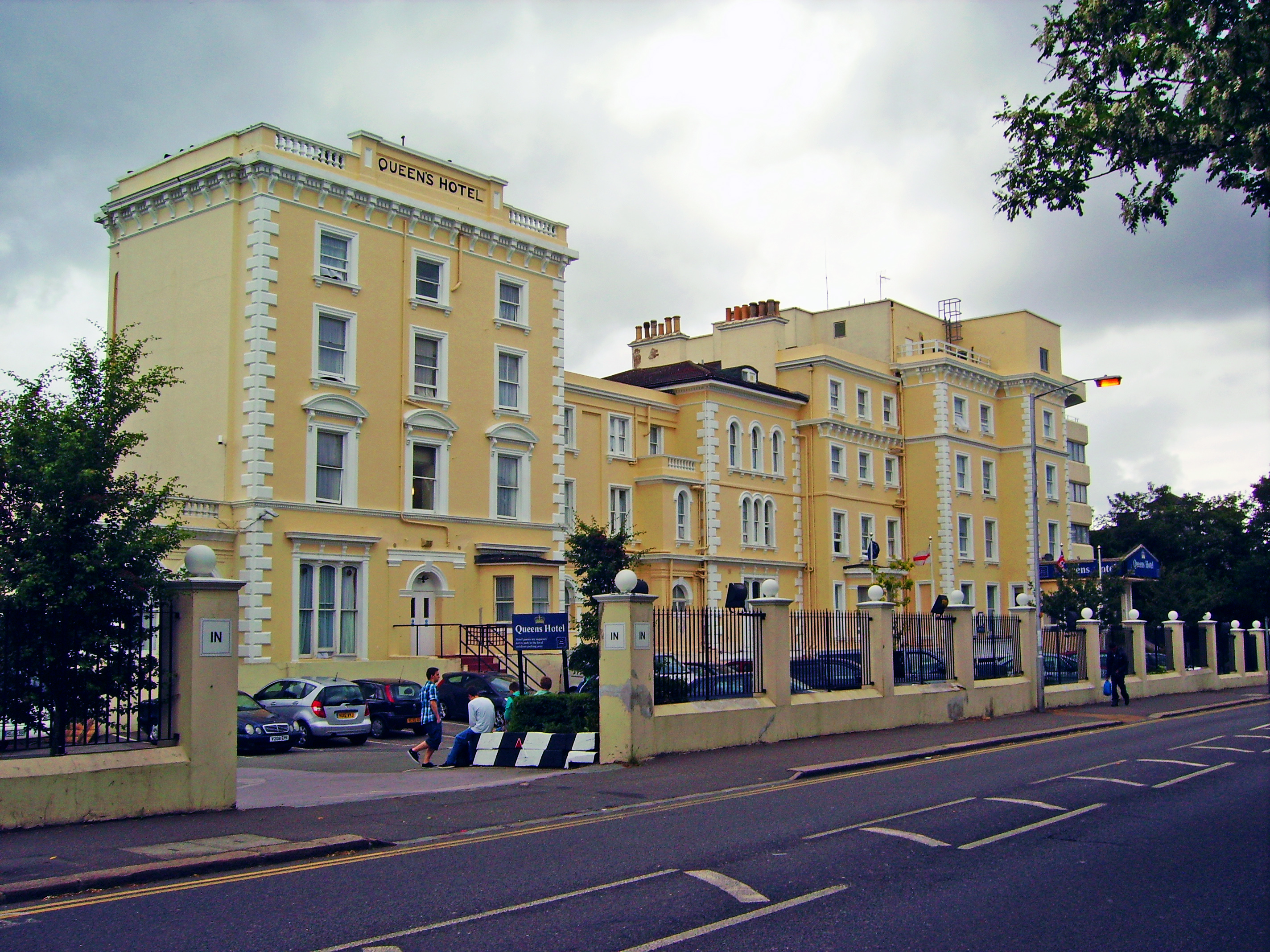 Queen's Hotel on Church Road, Crystal Palace. Emile Zola stayed here briefly.